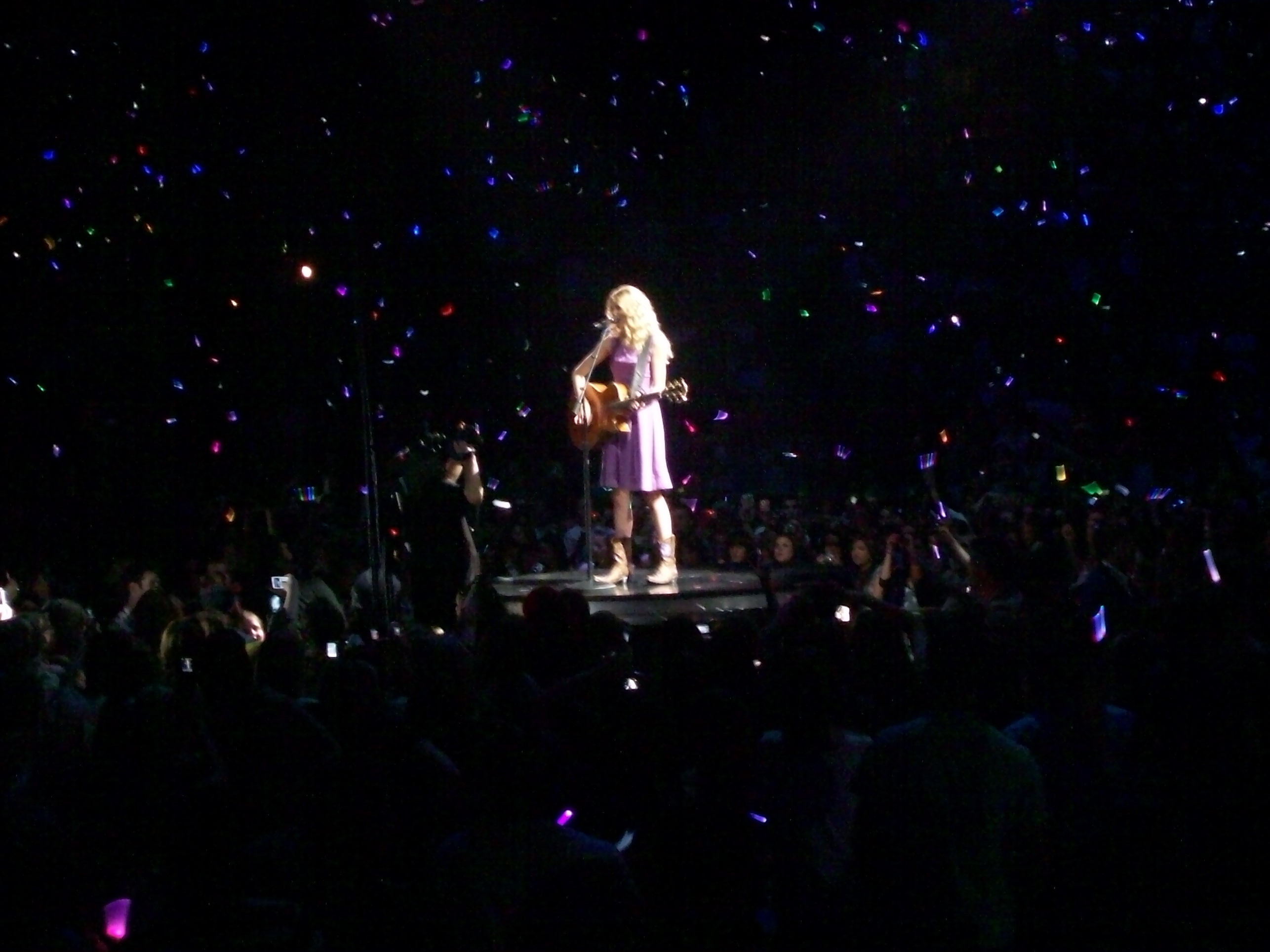 Taylor Swift Live in St. Louis at the Scottrade Center on 04/25/09